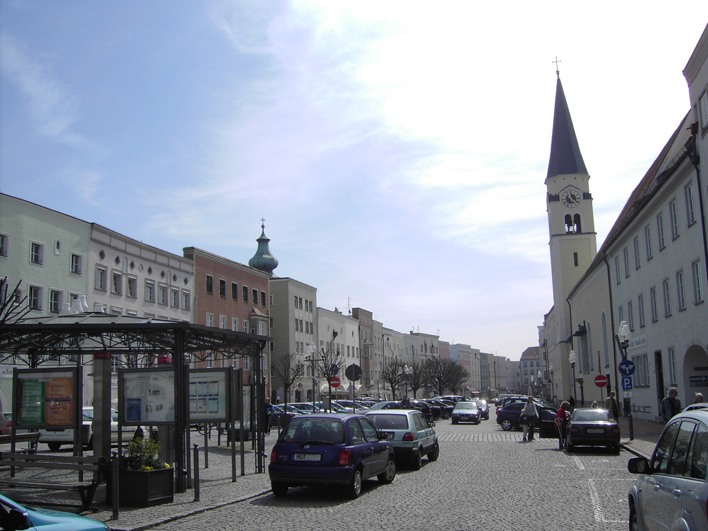 Mühldorf am Inn, view over the Stadtplatz facing south-east, seen from the land registry office, on right the Church of Our Lady and the music school.